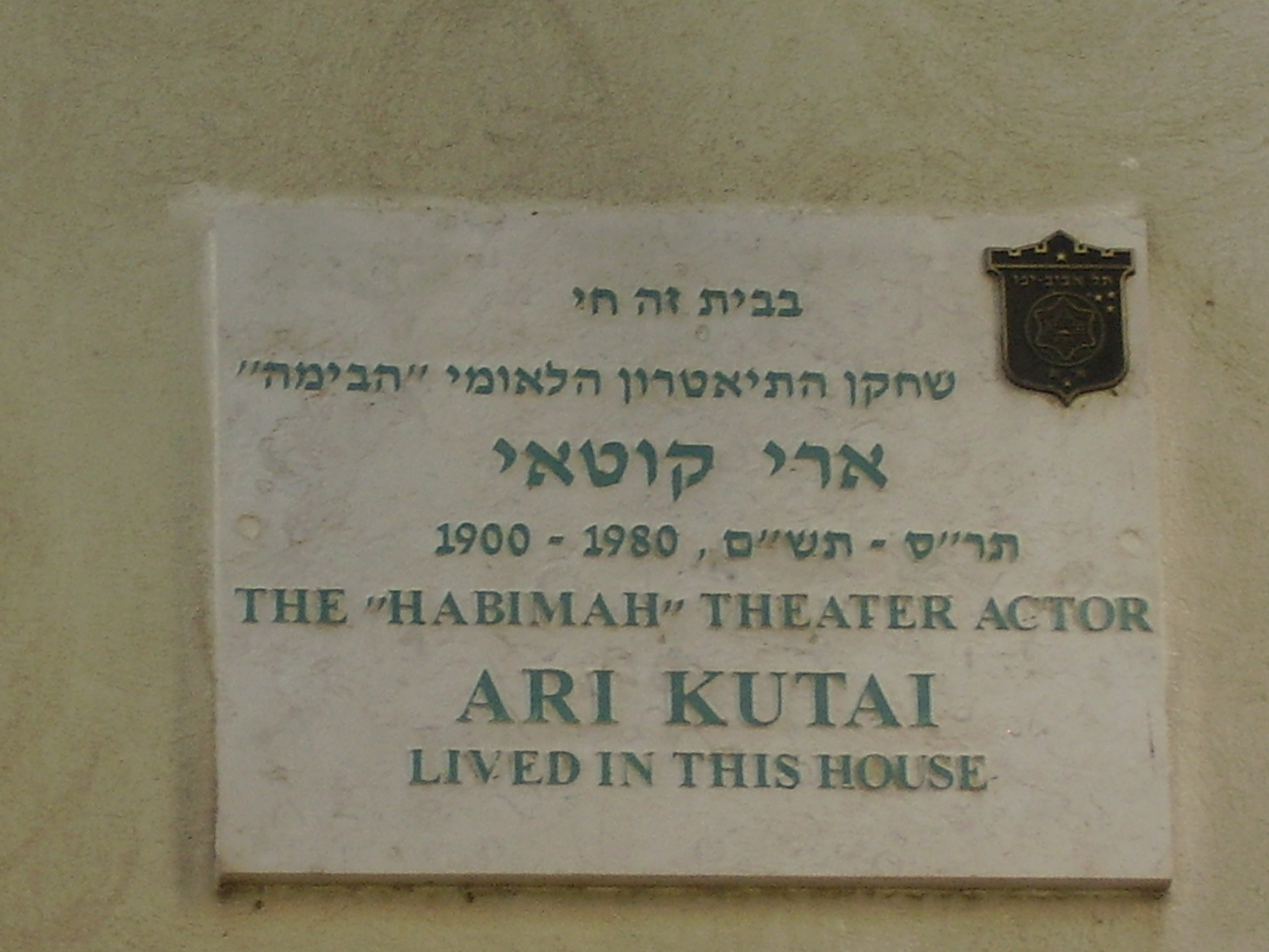 memorial plaque to the actor ari kutai in tel aviv לוחית זיכרון על ביתו של השחקן ארי קוטאי ברח' בזל 6 בתל אביב